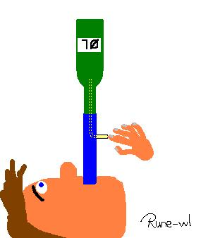 How to use a Party Shooter